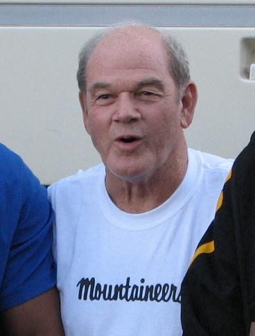 Appalachian State football coach Jerry Moore after the 2006 NCAA Division I Football Championship game